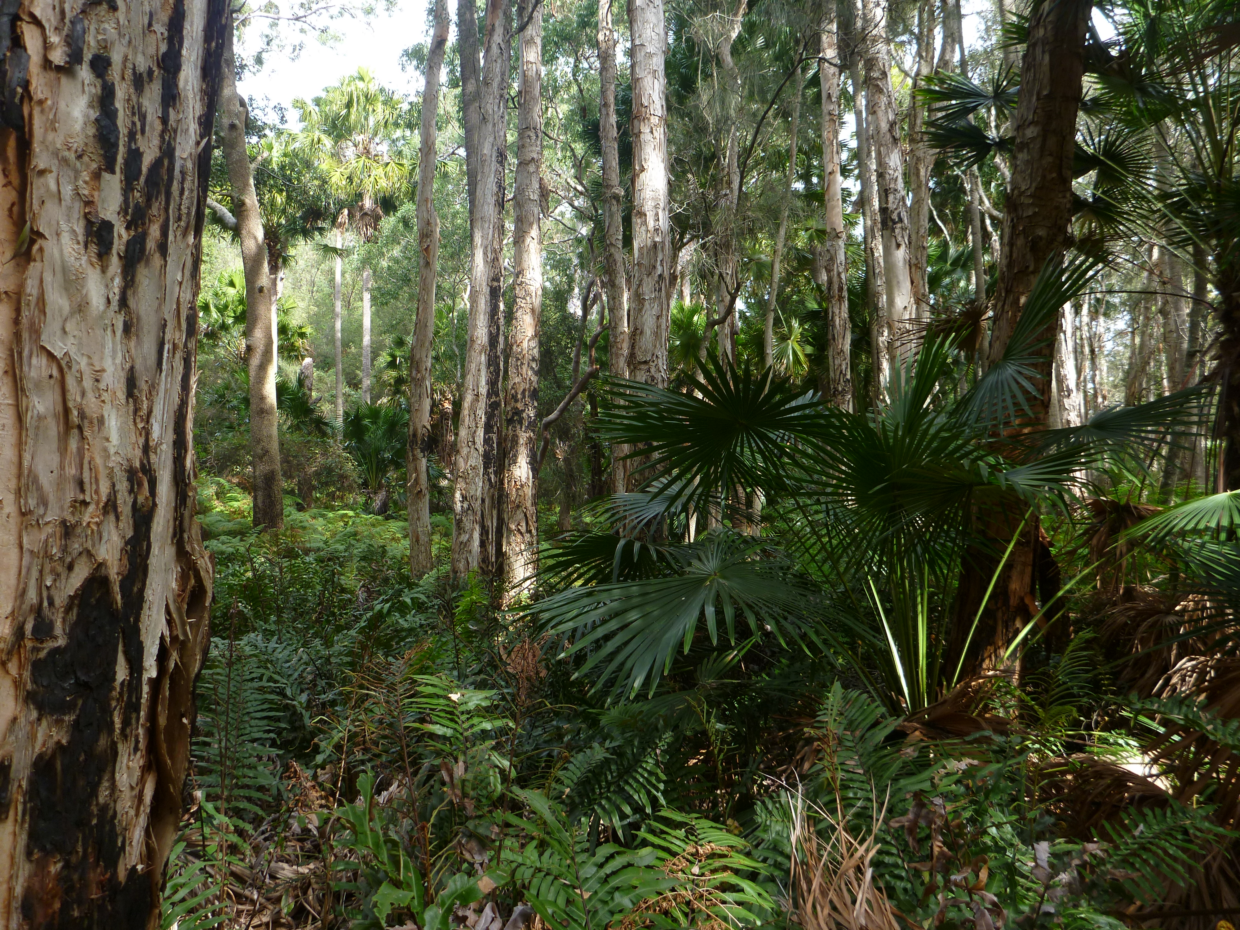 Broad-leaved Paperbark Melaleuca quinquenervia - Australian Cabbage Palm Livistona australis forest, Wyrrabalong National Park, New South Wales, Australia